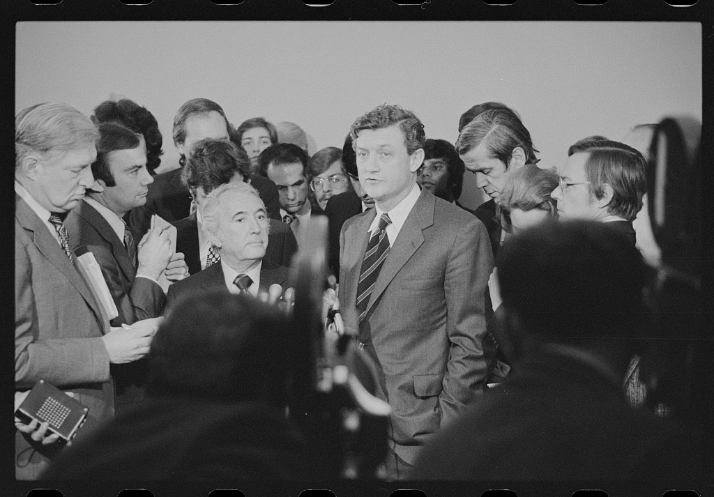 Congressman Peter Rodino, chairman of the U.S. House of Representatives Committee on the Judiciary and John W. Doar, lead special counsel for the Judiciary Committee's impeachment inquiry staff, during a January 24, 1974 press conference regarding the impeachment inquiry against President Nixon.